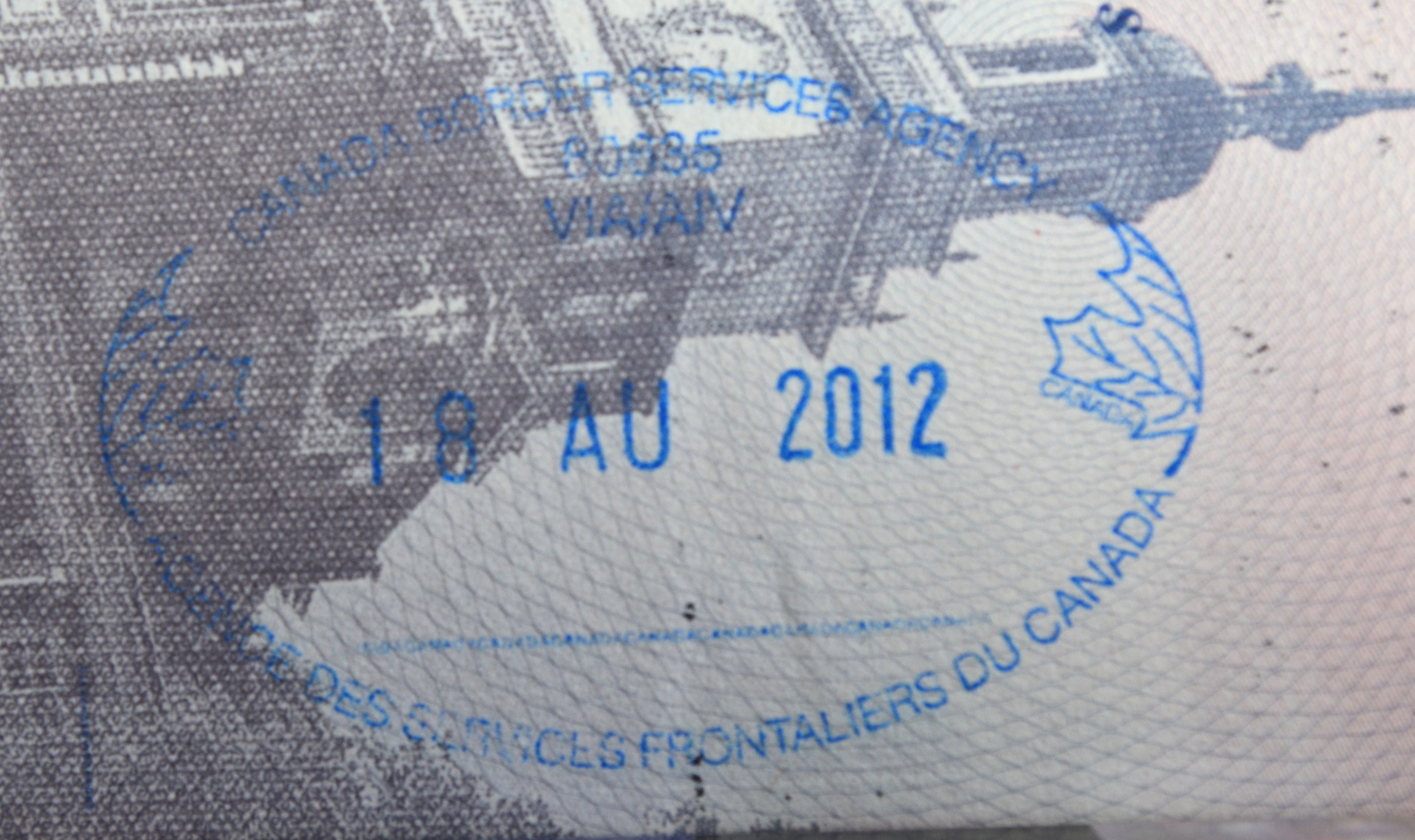 PASSPORT STAMP